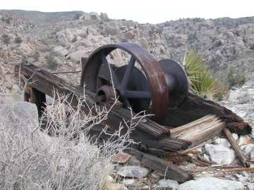 Winch, Desert Queen Mine, Joshua Tree National Park, California, USA